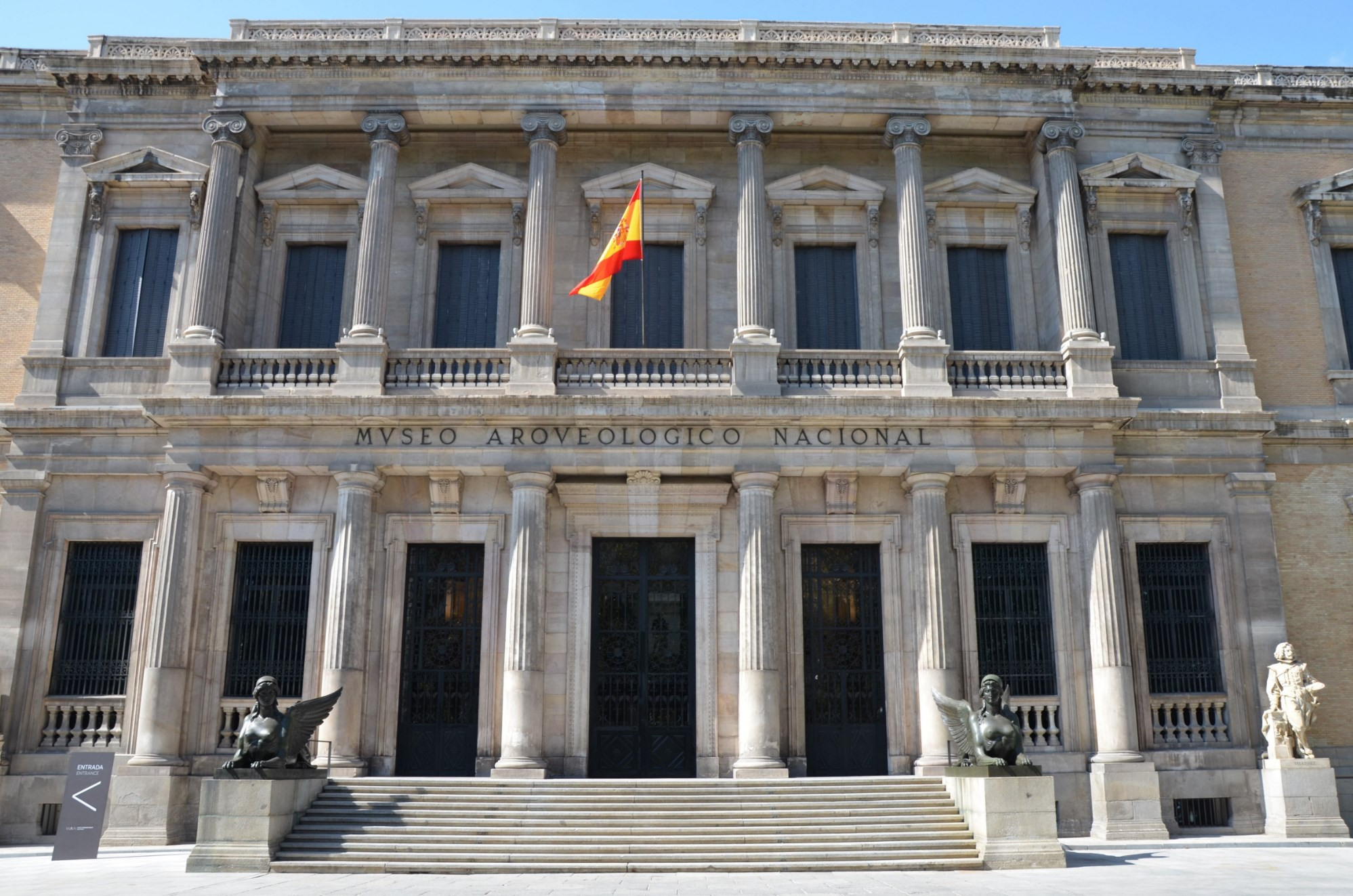 National Archaeological Museum of Spain, Madrid